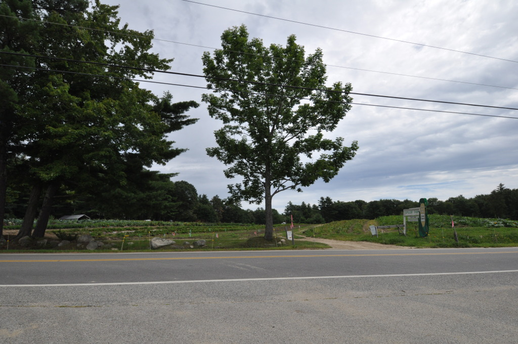 The Spiller Farm in Wells, Maine. The Spiller Farm Paleoindian Site is on this property.